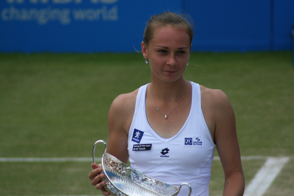 Magdaléna Rybáriková champion of the 2009 AEGON Classic in Birmingham, England, with the trophy